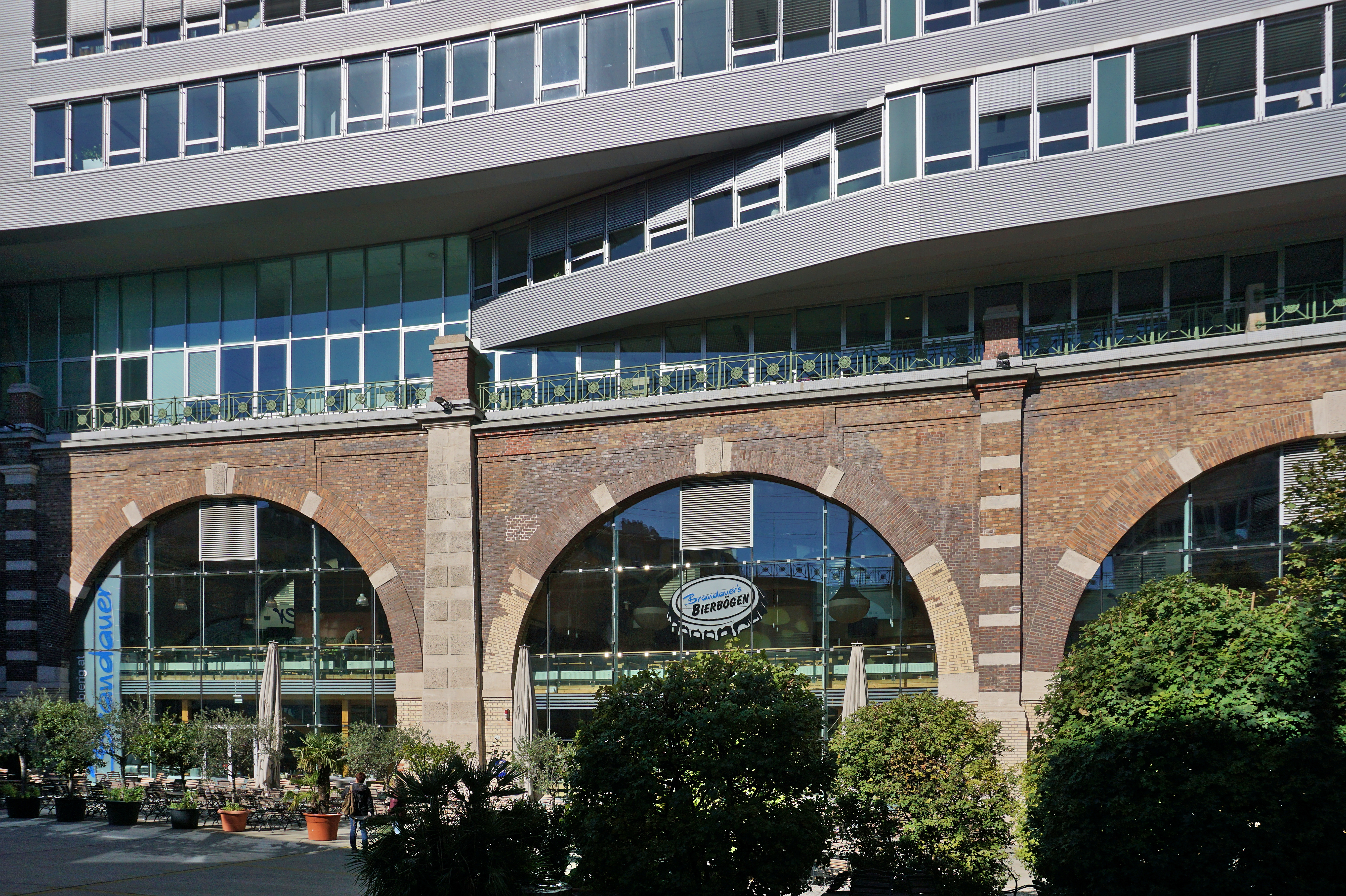 Brandauers Bierbögen